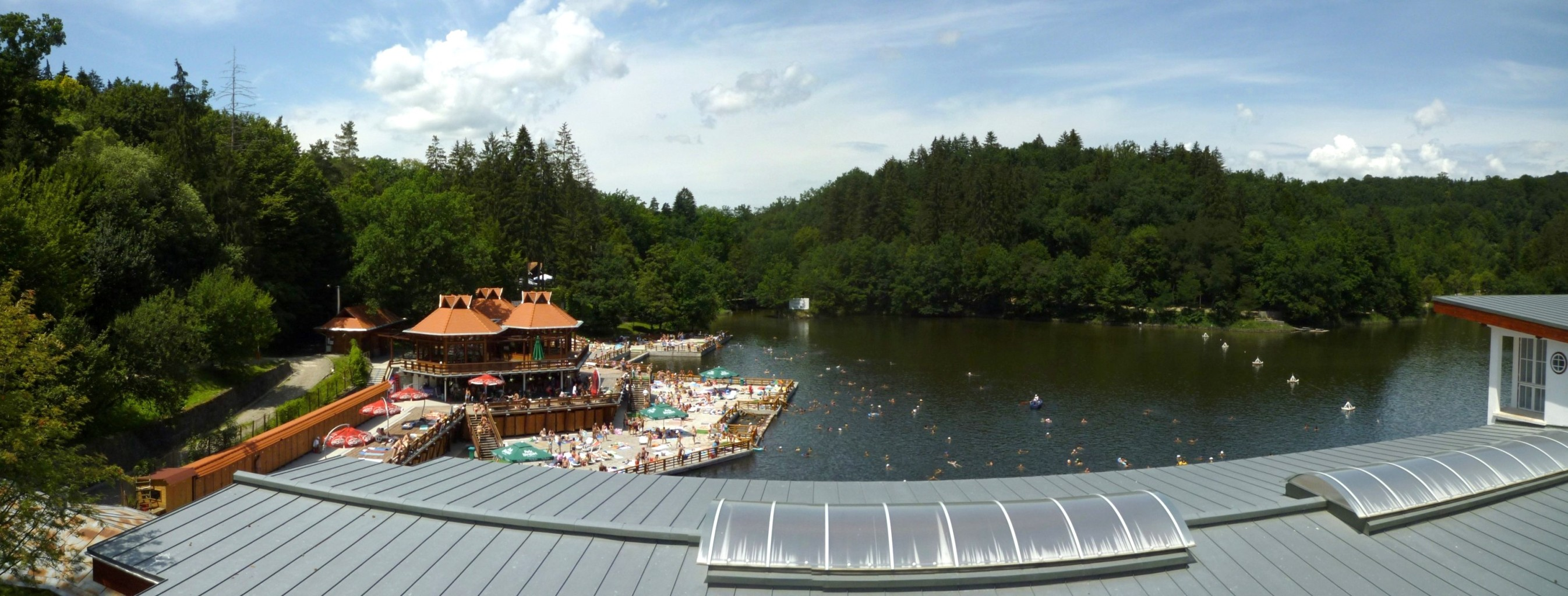 Medve-tó (Lacul Ursu) at Sovata, Transylvania (Romania)